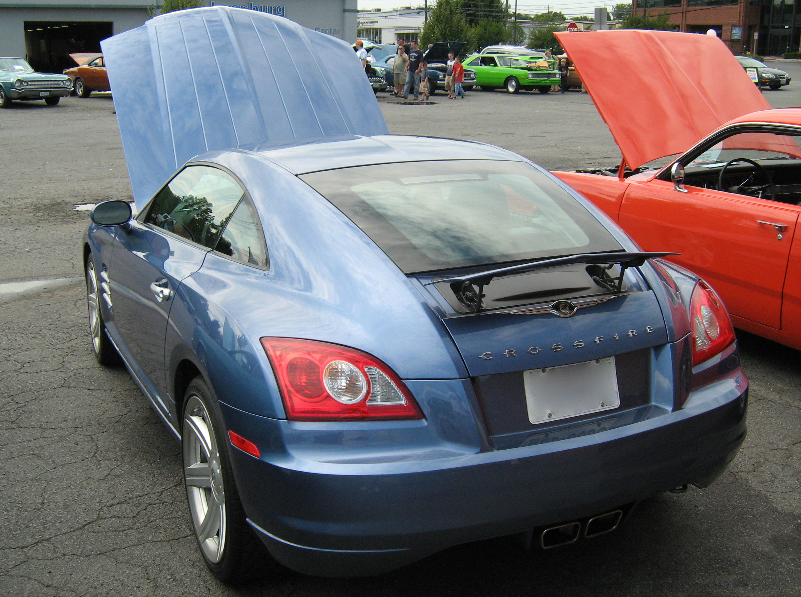 Chrysler Crossfire fastback coupe - rear view